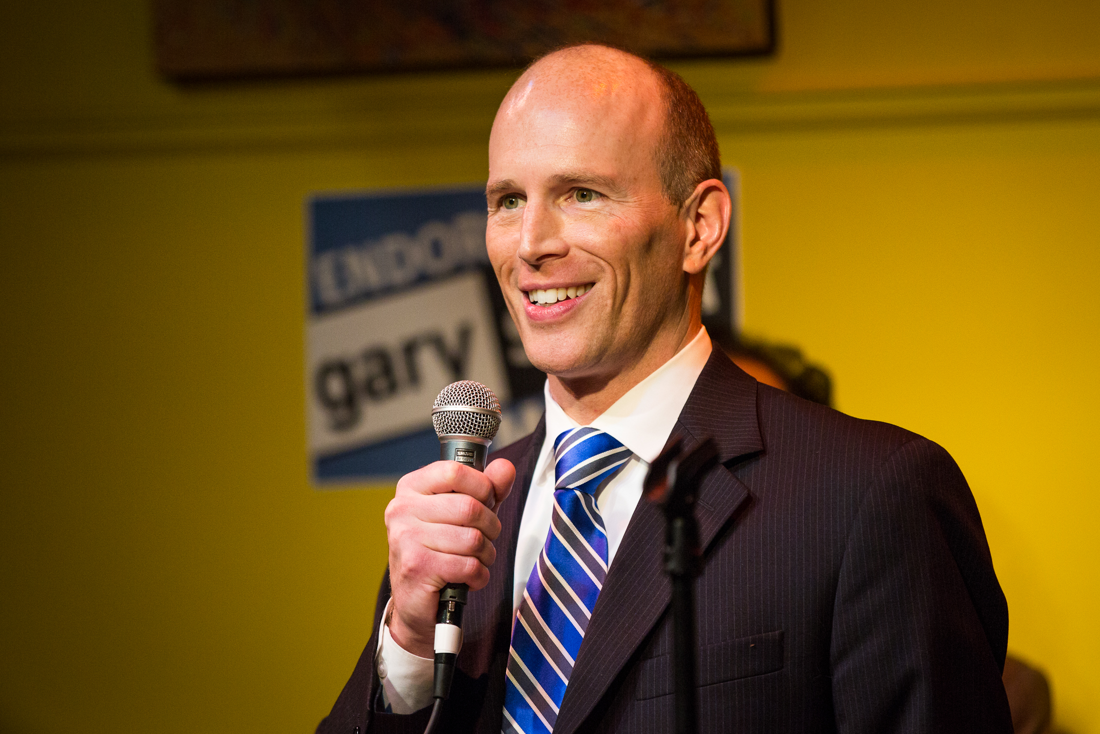 Gary Schiff launches his campaign for Minneapolis Mayor 8426916171 o